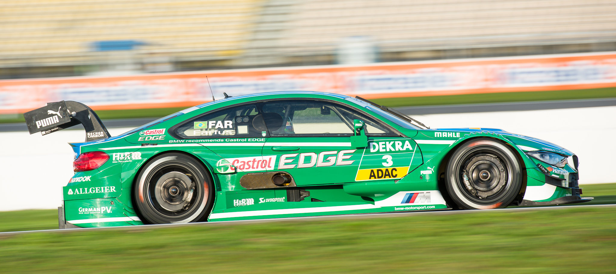 Augusto Farfus,Castrol EDGE BMW M4 DTM,DTM,Deutsche Tourenwagen Masters,Hockenheimring,Motorsport,RBM,Racing Bart Mampaey